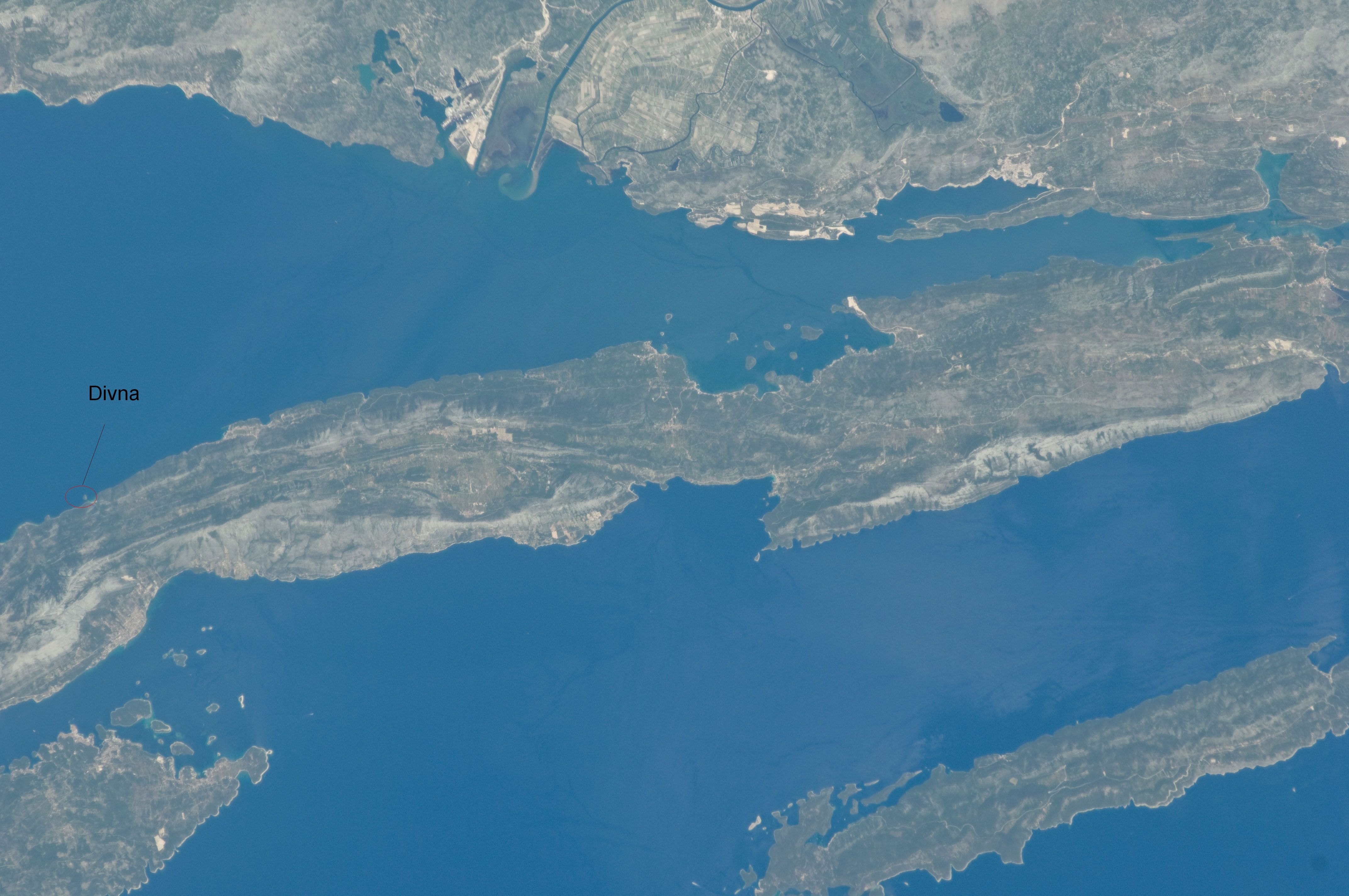 Satellite image of Divna